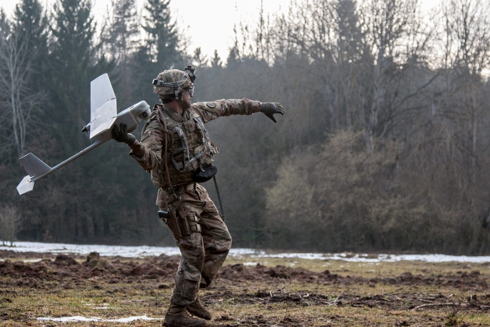 Army Spc. William Ritter, a military policeman with 287th Military Police Company, 97th Military Police Battalion, 89th Military Police Brigade, Fort Riley, Kan., prepares to launch the RQ-11 Raven, small unmanned aerial system into the air during Allied Spirit VIII at Hohenfels, Germany. Roughly 4,100 troops from 10 nations are participating in Allied Spirit VIII, a multinational training exercise designed to test participants' readiness and capabilities.